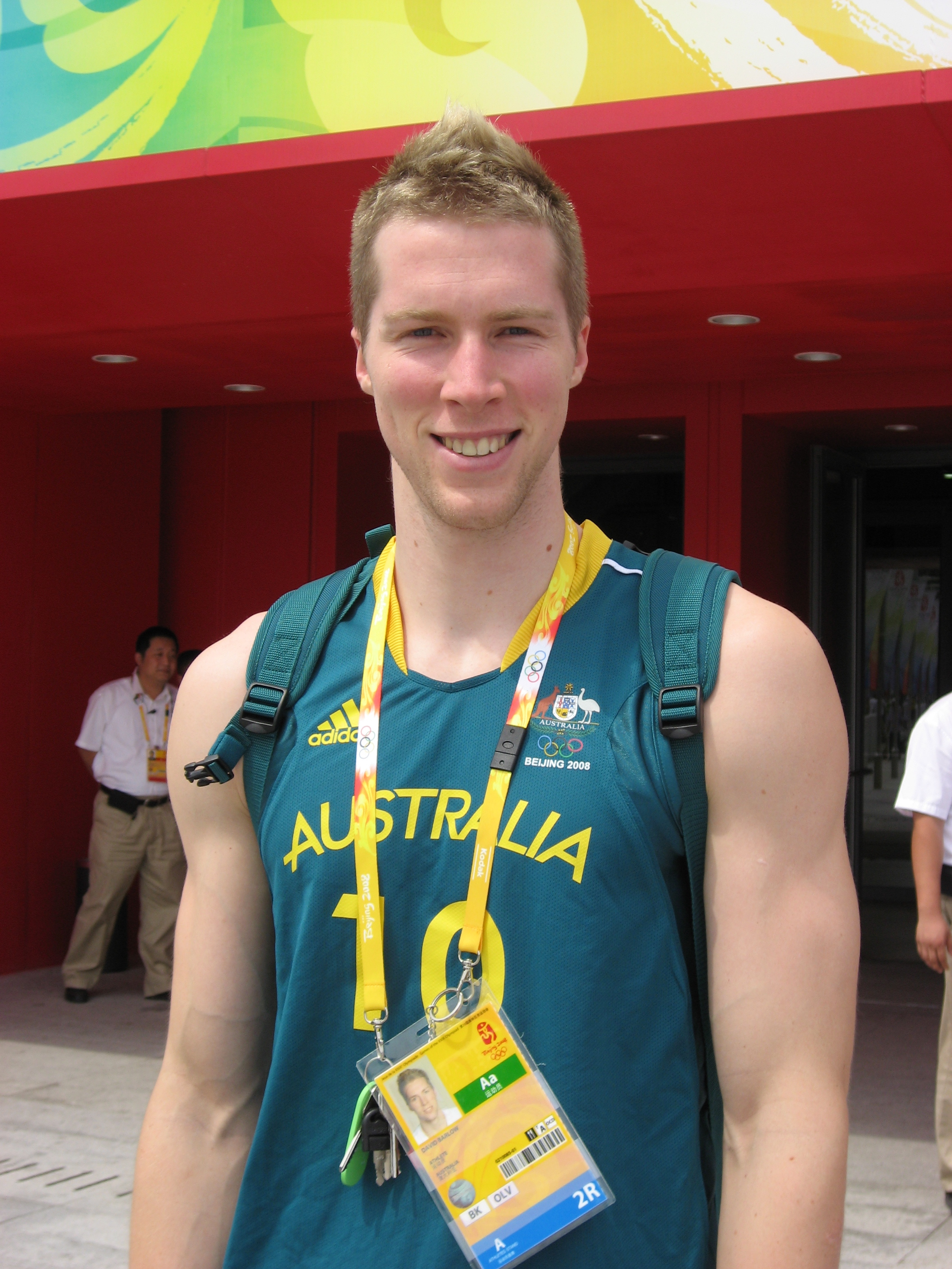 David Barlow in Beijing during the 2008 Summer Olympics